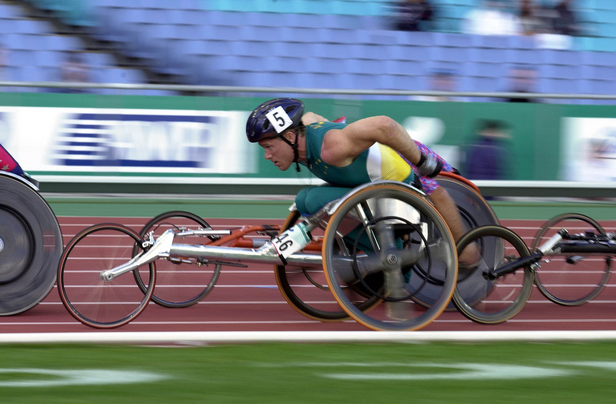 Action shot of Australian wheelchair racer John Maclean during the 10 km heat wheelchair race event at the 2000 Sydney Paralympic Games, Day 02. Side view.